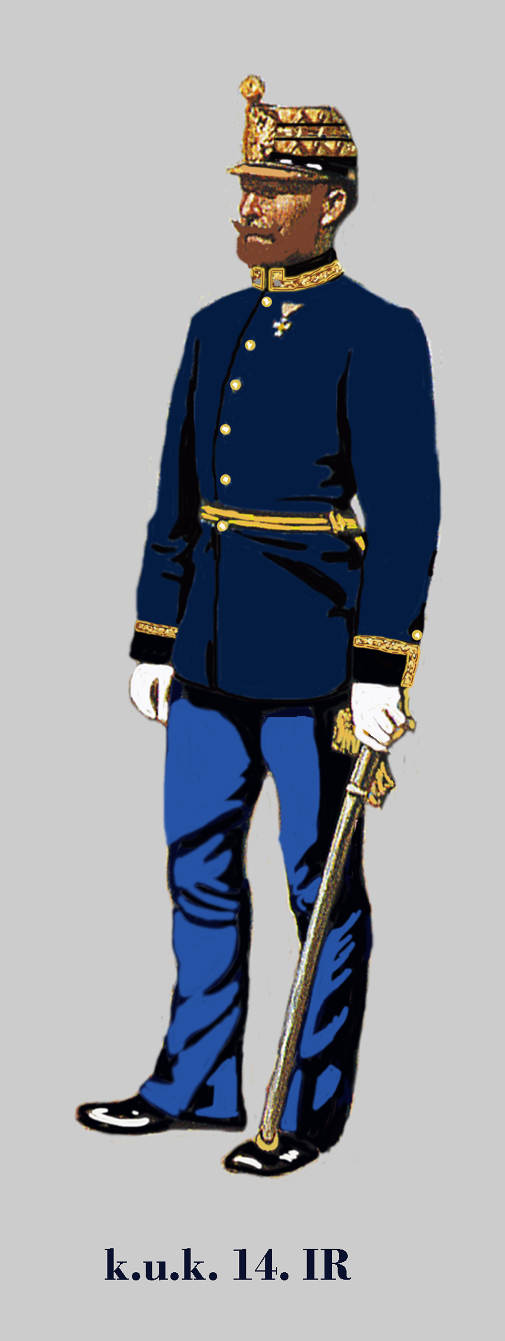 Majort of the Austria-Hungarian (k.u.k.). 14th german Infantry Regiment in Parade dress. 1914